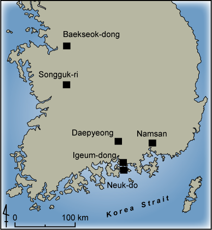 Map of selected archaeological settlement sites in the southern Korean Peninsula, c. 1500-300 BC